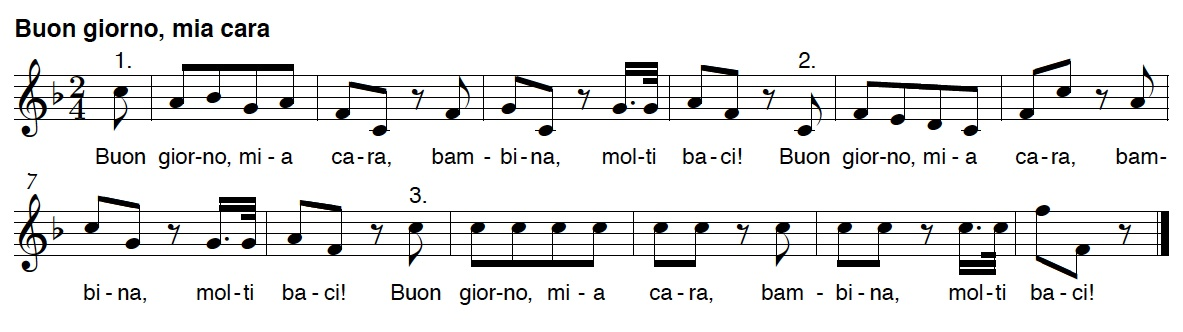 "Hello, my dear", homorhythmic children's canon. Lyric: "Good morning, my dear child, many kisses!"